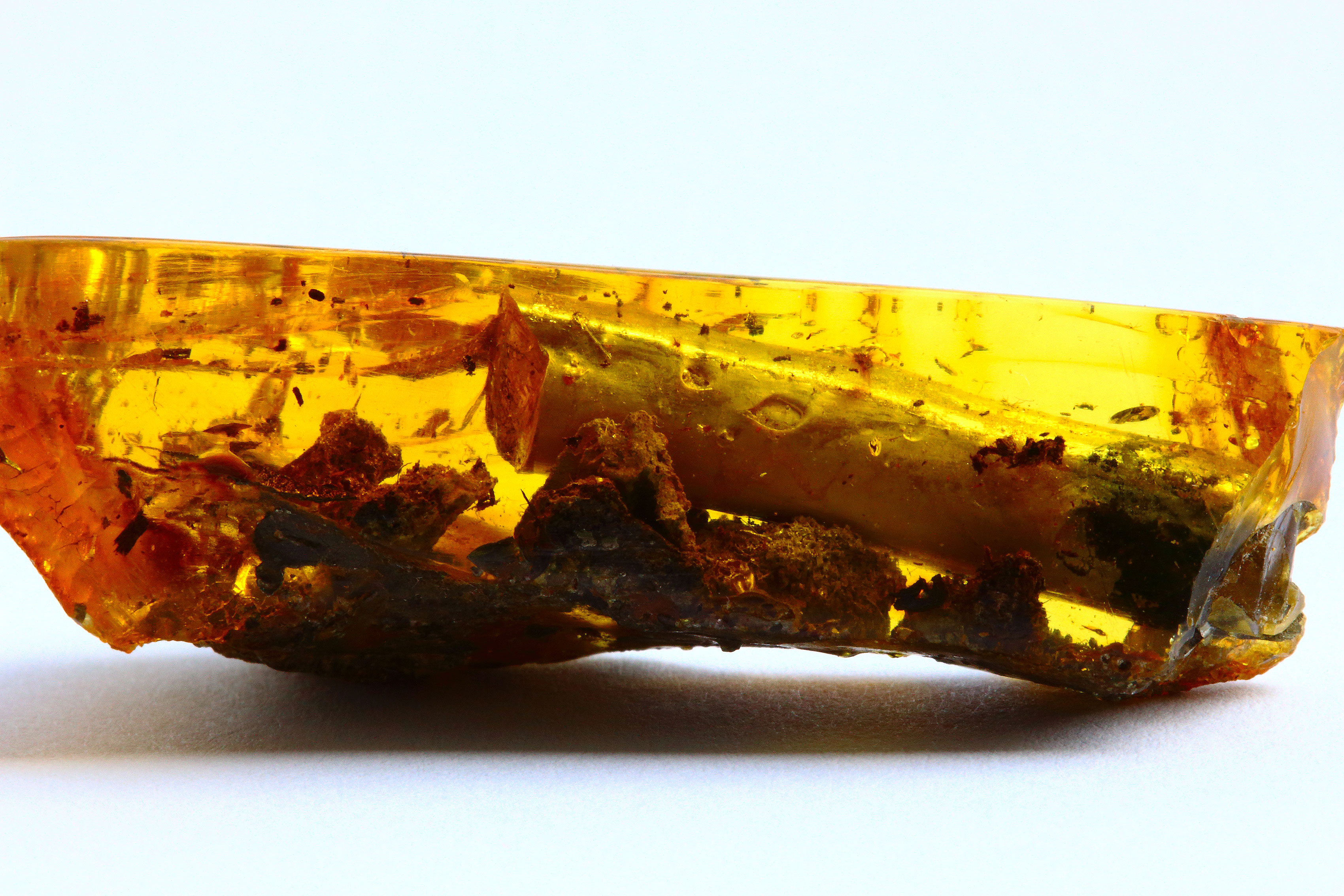 Baltic amber with plant inclusions. Size 5,5 cm